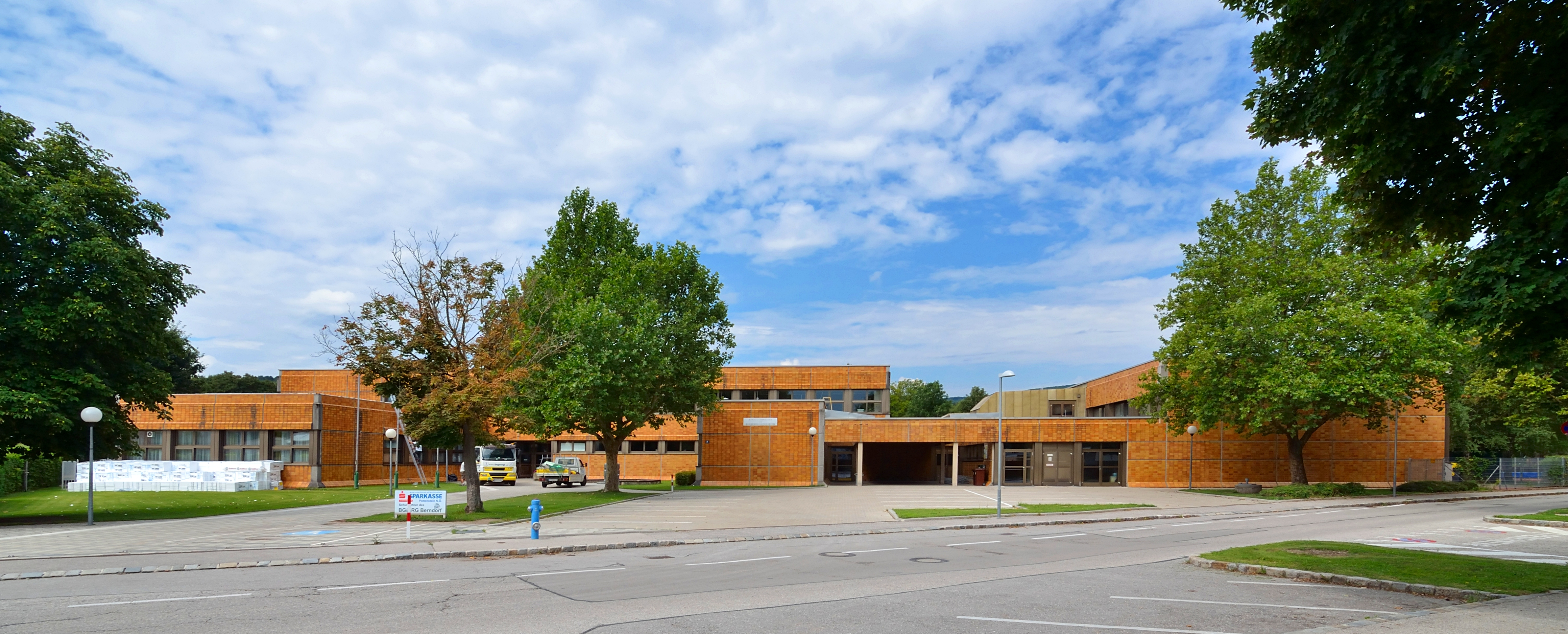 The secondary school (BG/BRG) Berndorf, Lower Austria